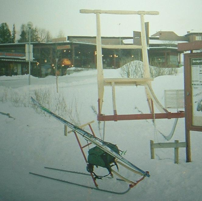 Description: Big spark (kicksled) and normal size spark in Tynset, Norway Photographer: David Dermott Ddermott Date March 1999 Licence